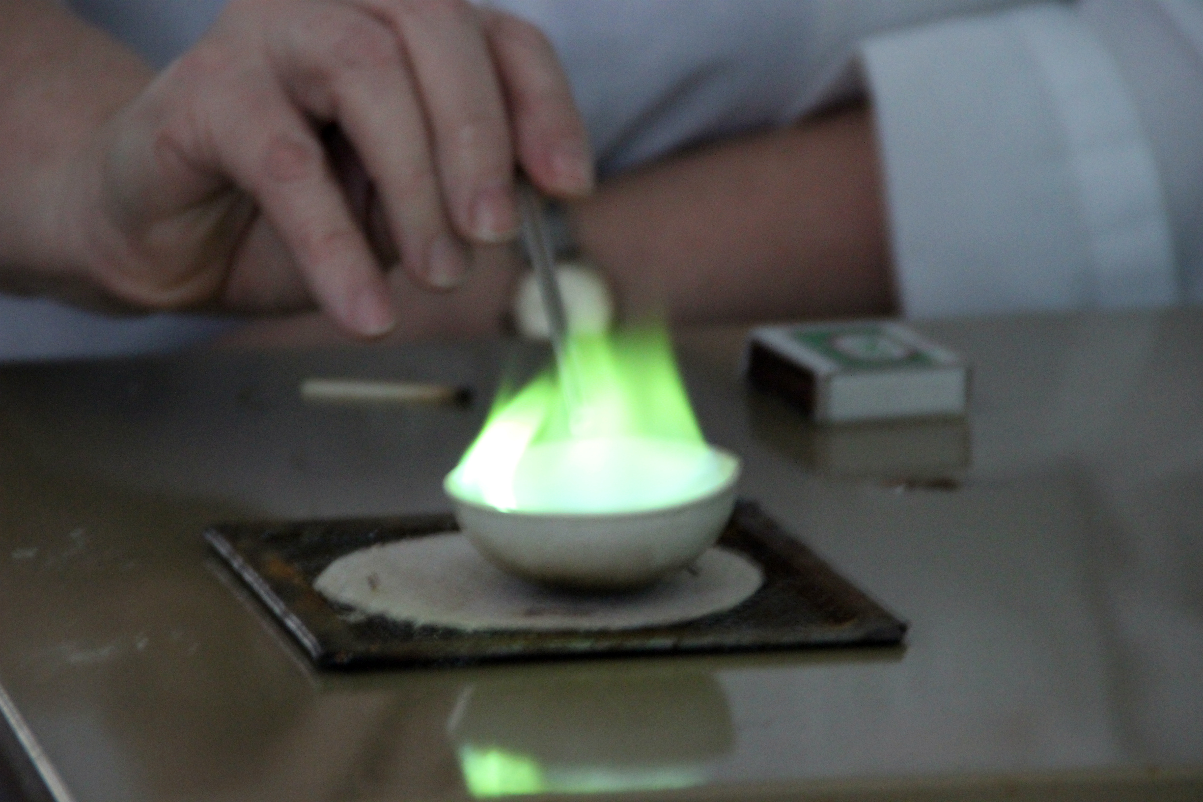 It is the practical lesson on General and Inorganic Chemistry in the Medical college. The experiment of the qualitative reaction on boric acid (the esterificationreaction) is conducted. There are boric acid, concentrated sulfuric acid, ethanol in the porcelain cup. We observe the flame with a green border when burning the contents of the cup.